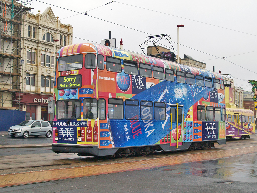 Blackpool Transport Services Limited car number 718, a Blackpool Transport Services Limited rebuilt The English Electric Company Limited ‘Millennium’ double deck bogie car with The English Electric Company Limited 4' 9" wheel base equal wheel bogies, two The English Electric Company Limited 305 57 horse power motors and The English Electric Company Limited Z6 controllers with a Blackpool Transport Services Limited rebuilt The English Electric Company Limited 92 seat centre entrance body built 1935 rebuilt 2002 by the North Pier at Blackpool. Thursday 20th March 2008